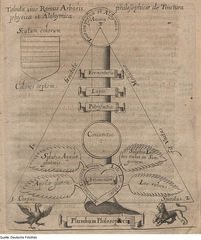 Original image description from the Deutsche Fotothek Theosophie & Alchemie & Katholizismus & Medizin